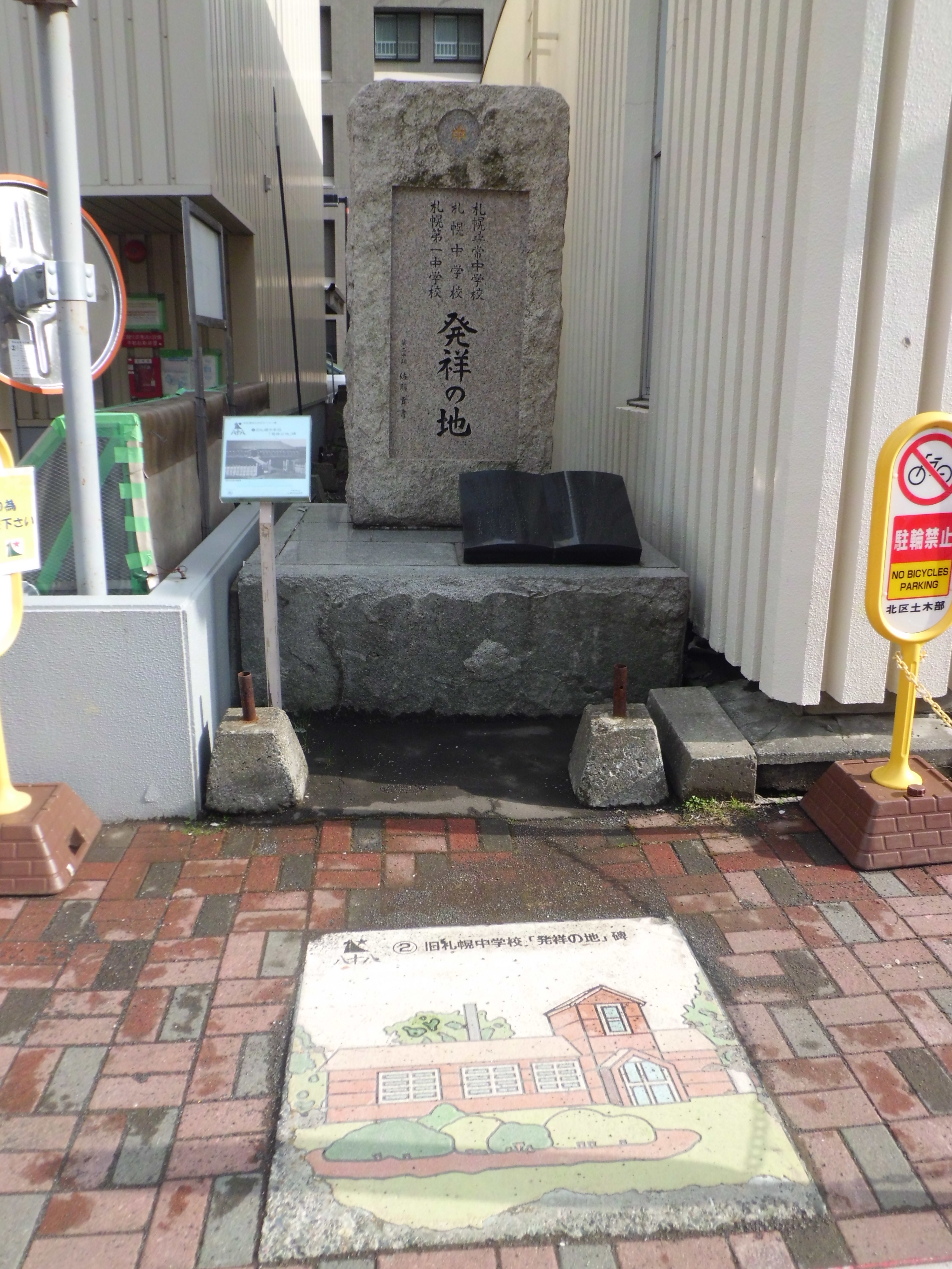 Monument to Old Sapporo Middle School